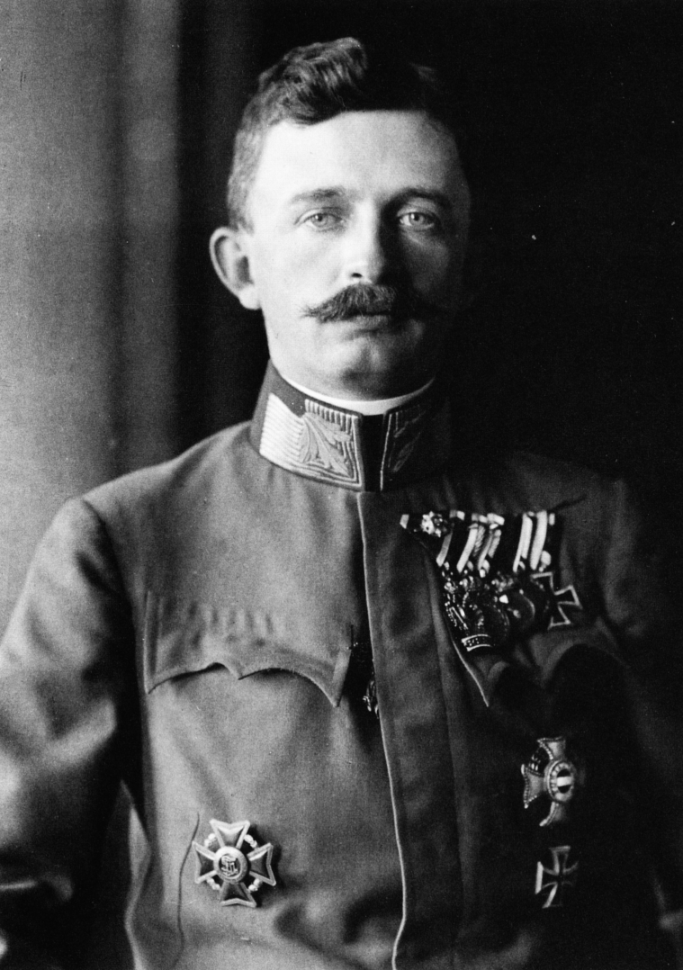 Emperor Charles I. of Austria-Hungary wearing the field version of the uniform of a field marshall